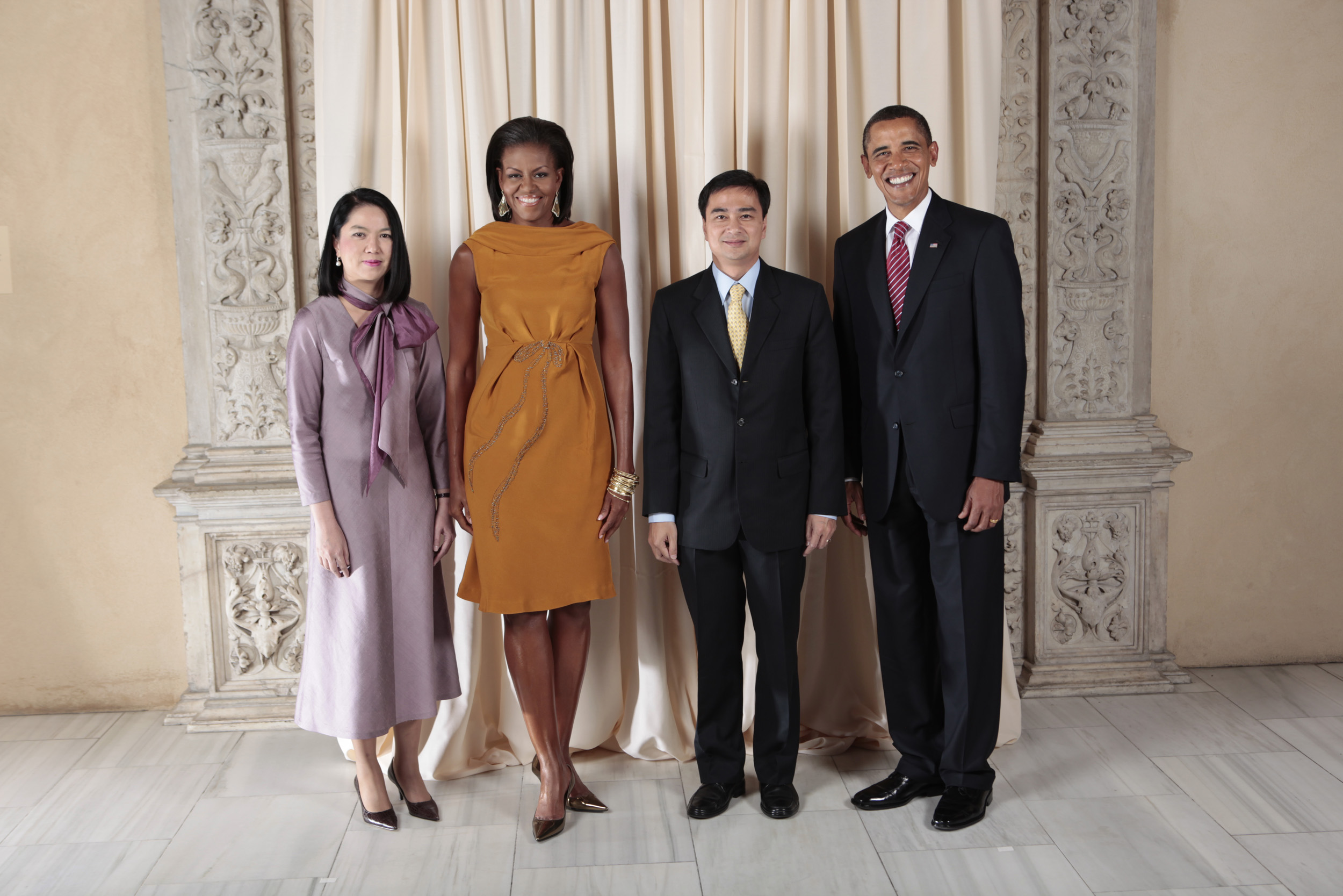 President Barack Obama and First Lady Michelle Obama pose for a photo during a reception at the Metropolitan Museum in New York with Thai Prime Minister Abhisit Vejjajiva and Dr. Pimpen Sakuntabhai.